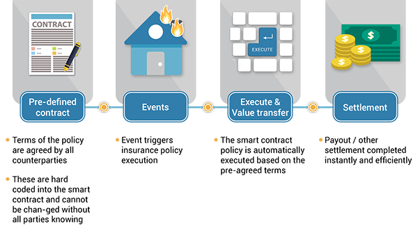 A simplified example of how a smart contract would work in an insurance environment. Created 17th April, 2017. For free usage please link back to the original